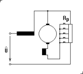 Electric motors